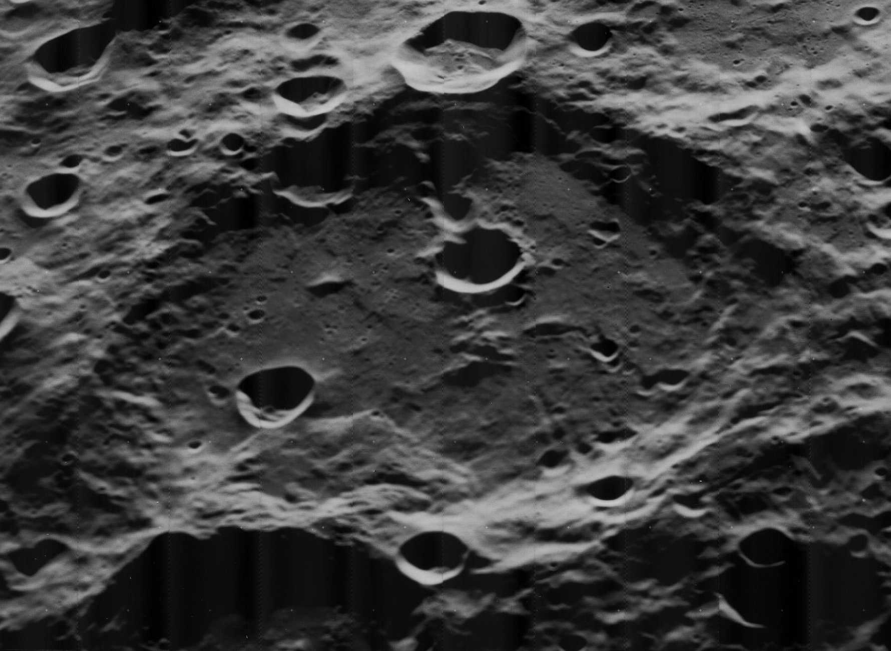 Oblique view of Chebyshev, on the far side of the moon, facing west.